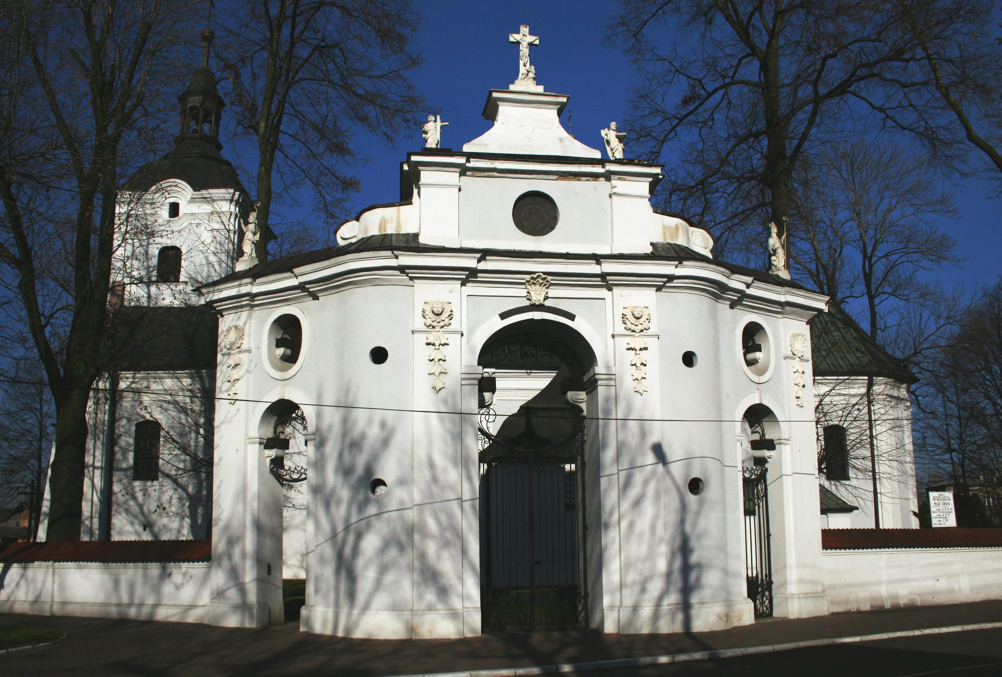 St. Mathiew church in Siewierz, Poland